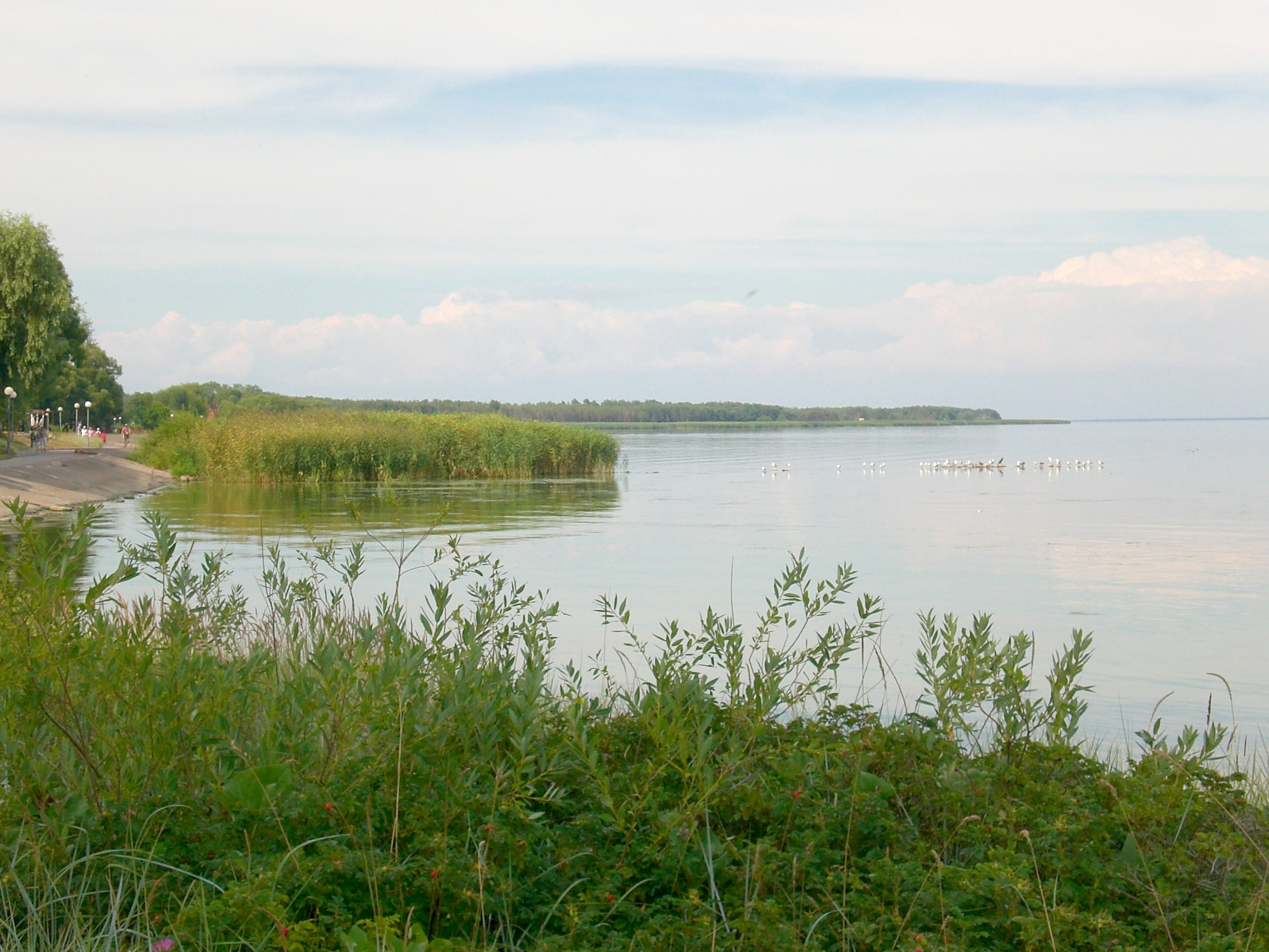 Nida on the Kurischen Nehrung in Lithuania